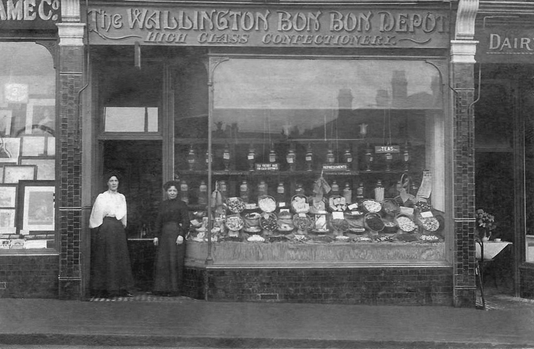 Confectioners in Spalding, Lincolnshire, England. Dated at or before 1907 per franked stamp.